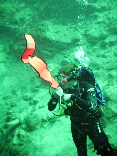 A scuba diver deploying a surface marker buoy.